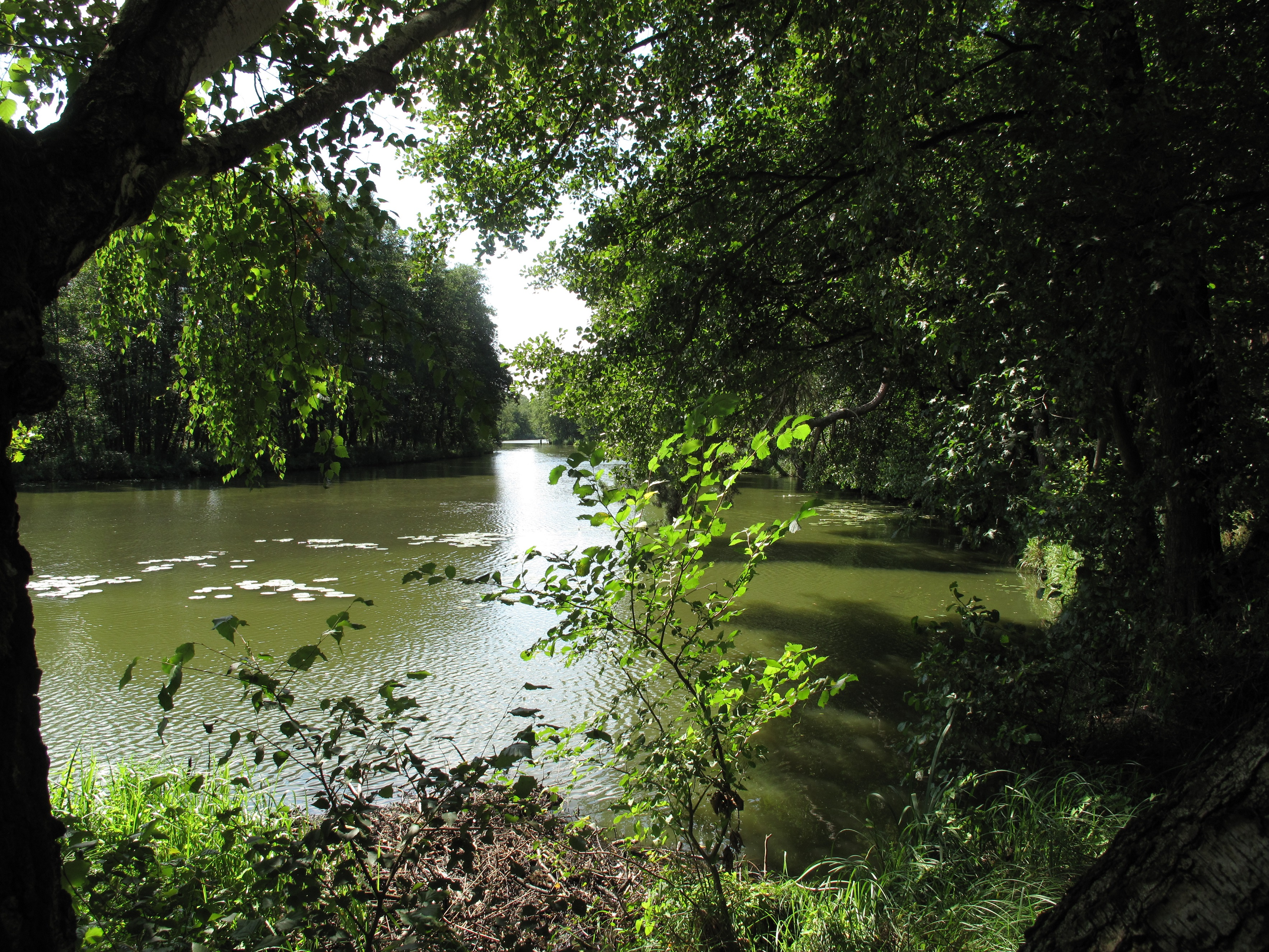 Storkower Kanal in the Naturschutzgebiet Storkower Kanal. The „Naturschutzgebiet Storkower Kanal “ is a Naturschutzgebiet (protected area) and Natura 2000-area in the districts Oder-Spree and Dahme-Spreewald in Brandenburg, Germany. The area covers about 97 hectare and is situated in the Dahme-Heideseen Nature Park. It is nestled along the „Stahnsdorfer Fließ“ (little stream) and along the west part of the eponymous Storkower Kanal (water canal).